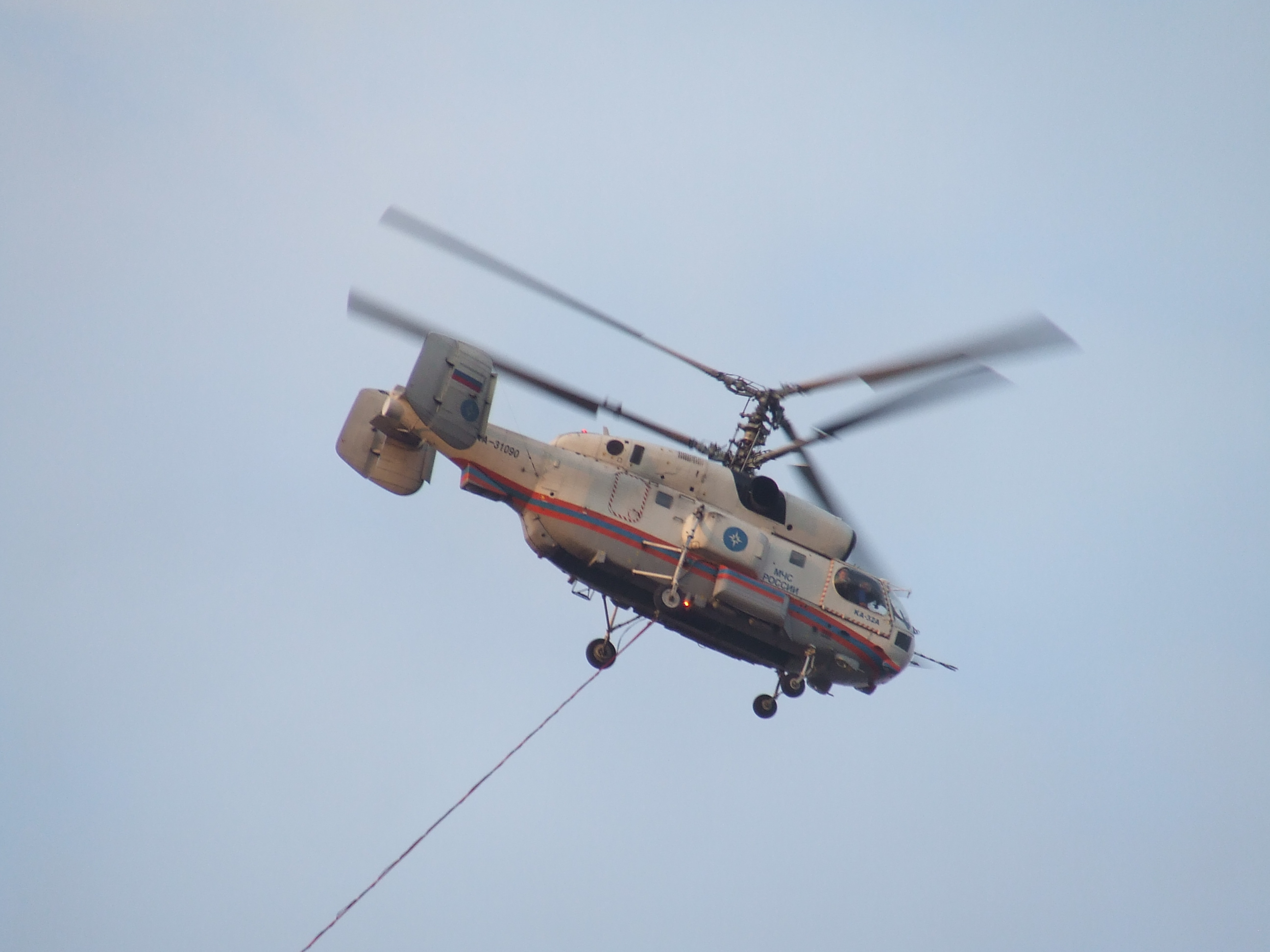 Firefighting Kamov KA-32A over city of Niš, Serbia